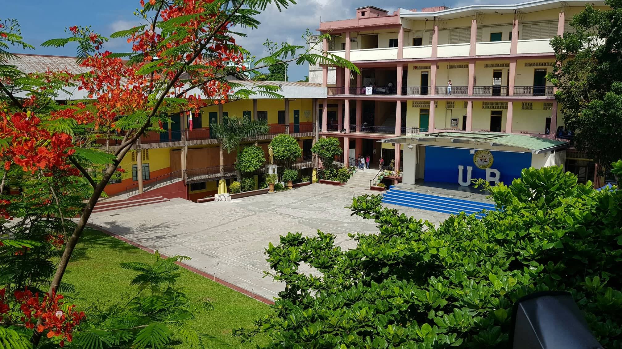 A premier university transforming lives for a great future.